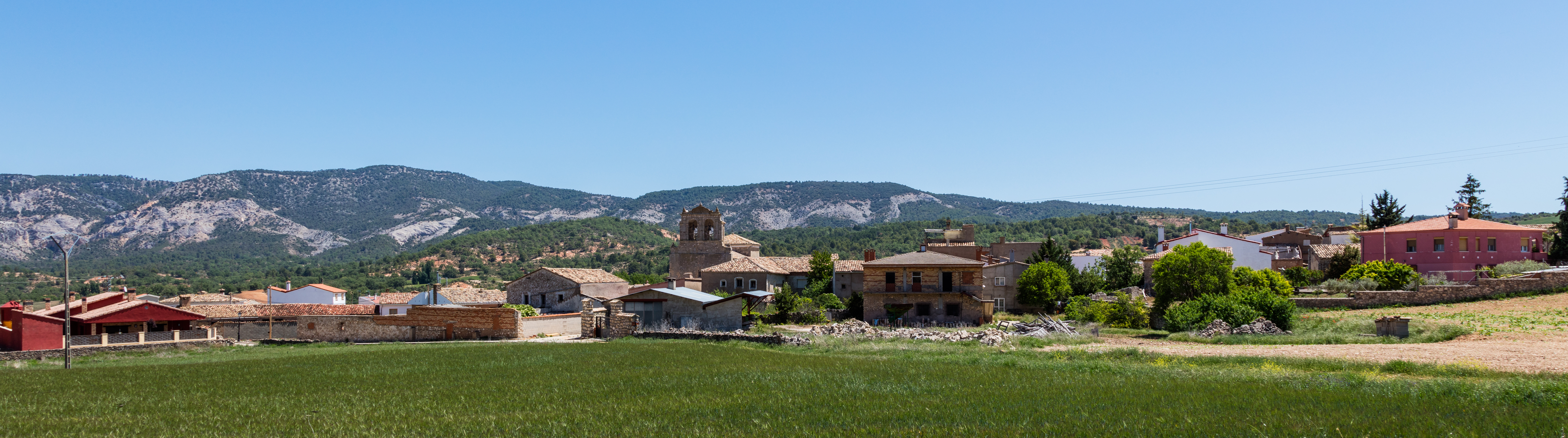 La Frontera, Cuenca, Spain